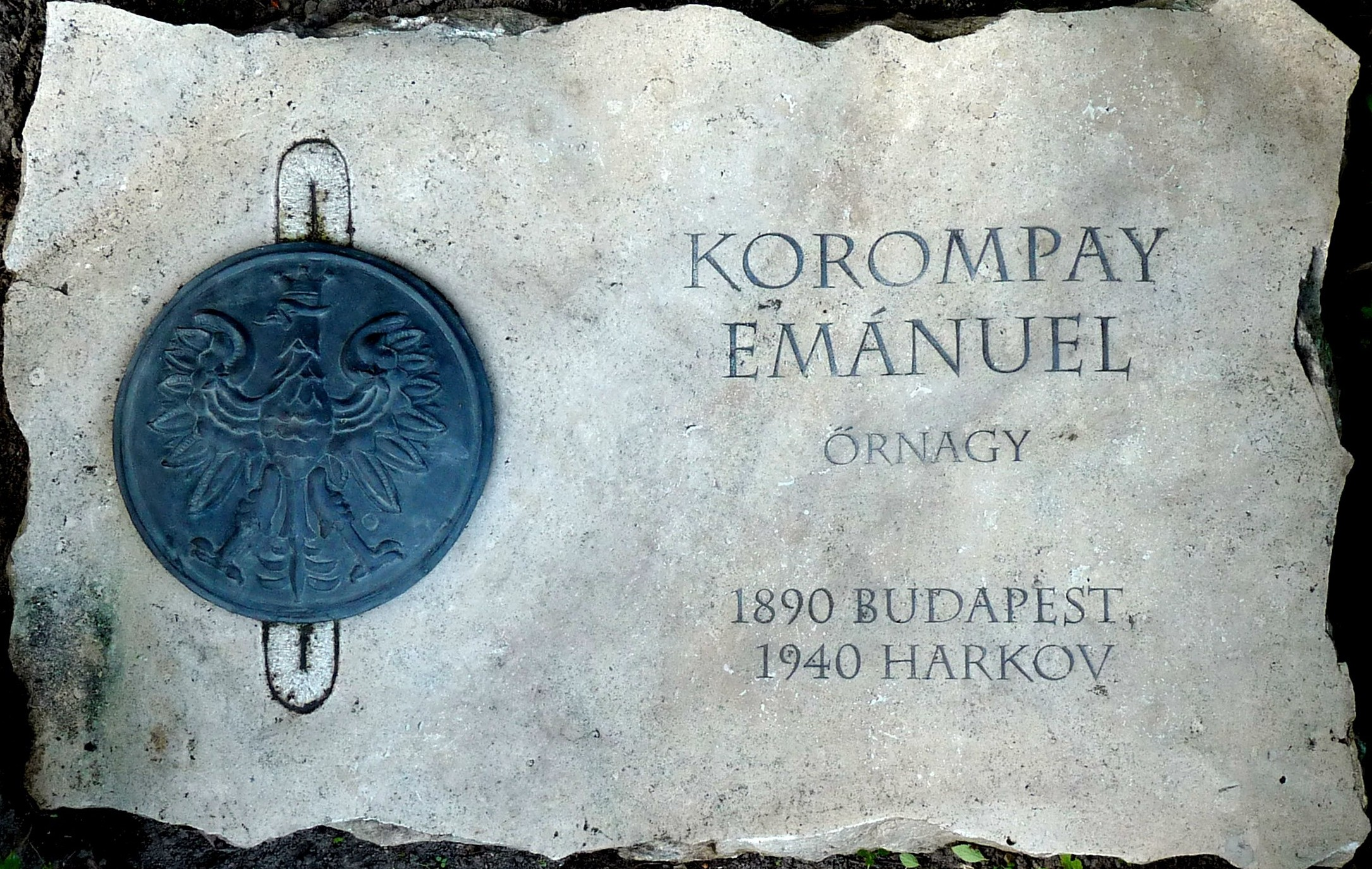 Commemorative plaque to Mr. Emánuel Aladár Korompay (1890-1940), a Polish officer of Hungarian descent, a martyr to the Katyń massacre. It had been placed next to an oak tree planted in memory of the officer in Óbuda April 8, 2011. (Budapest, District III, Katyn Martyrs’ Park)